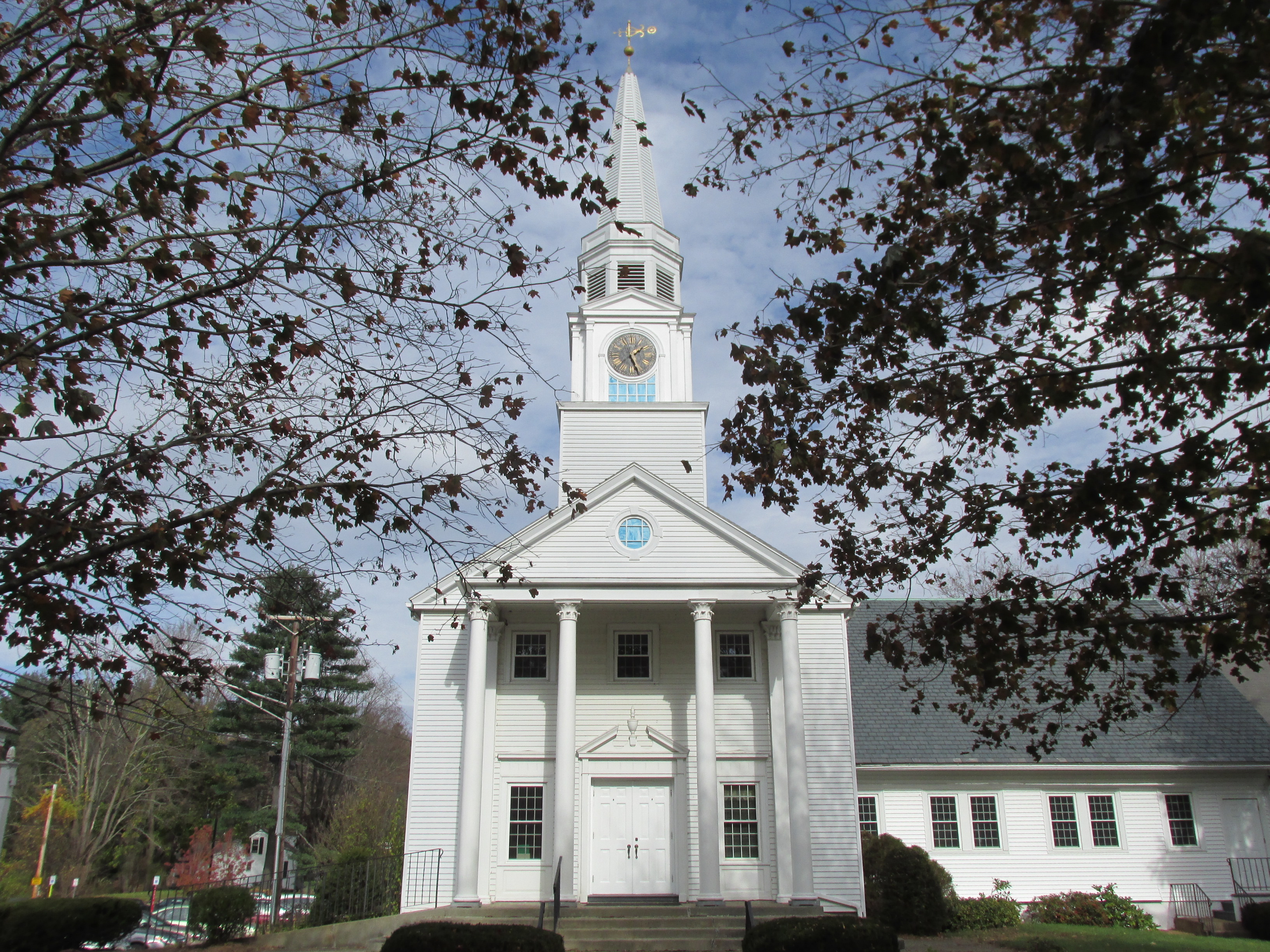 Federated Church of Sturbridge and Fiskdale, Sturbridge Massachusetts